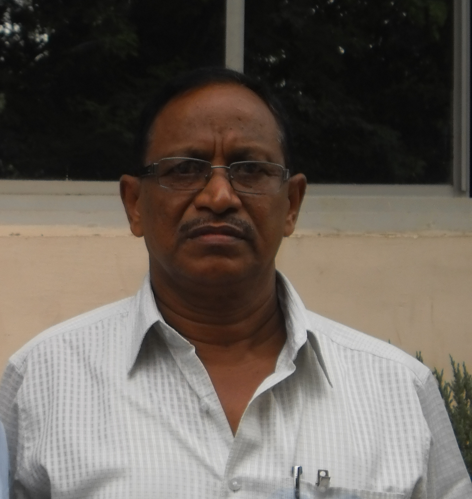 Template:Radheya